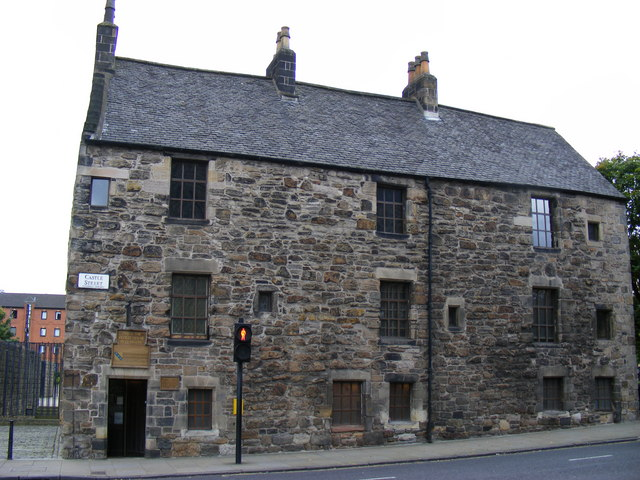 Provand's Lordship Castle Street Glasgow This is the only house to survive from medieval Glasgow. It has stood for over 500 years watching over the changing fortunes of the city and nearby Cathedral.